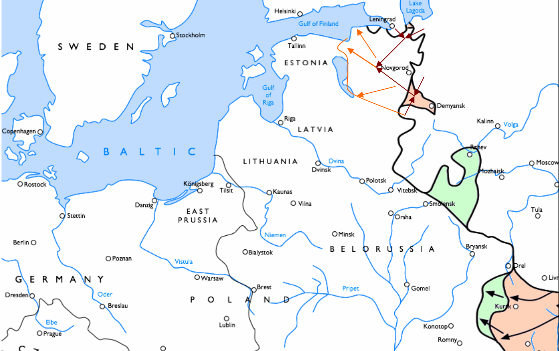 Soviet Plan for Operation Polar Star February-March 1943